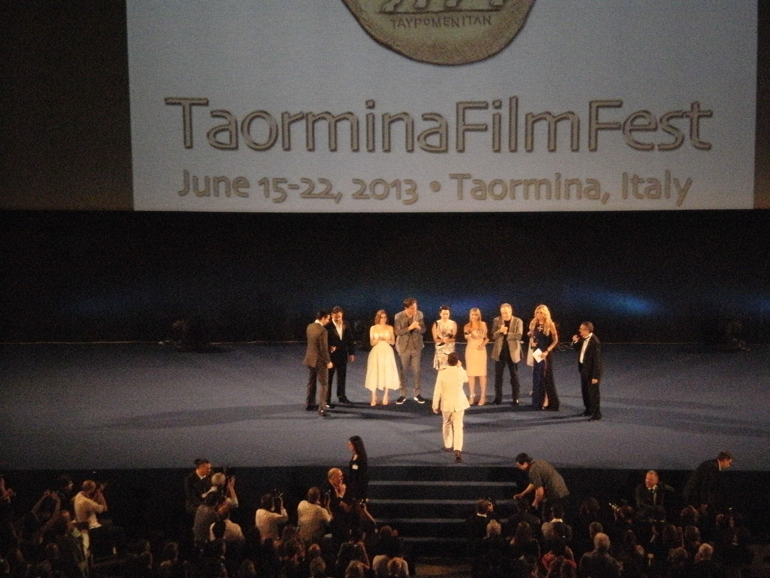 The cast of Man of Steel at Taormina Film Fest 2013, Italian premiere of the movie.In front: the director Zack Snayder (with white dress is coming) and the interpreter. Behind from left: Henry Cavill (Superman), Russell Crowe (Jor-El), Amy Adams (Lois Lane), Michael Shannon (Zod), Antje Traue (Faora), ?, ?. Tiziana Rocca (presenter of the show) and Mario Sesti (art director of the Festival)